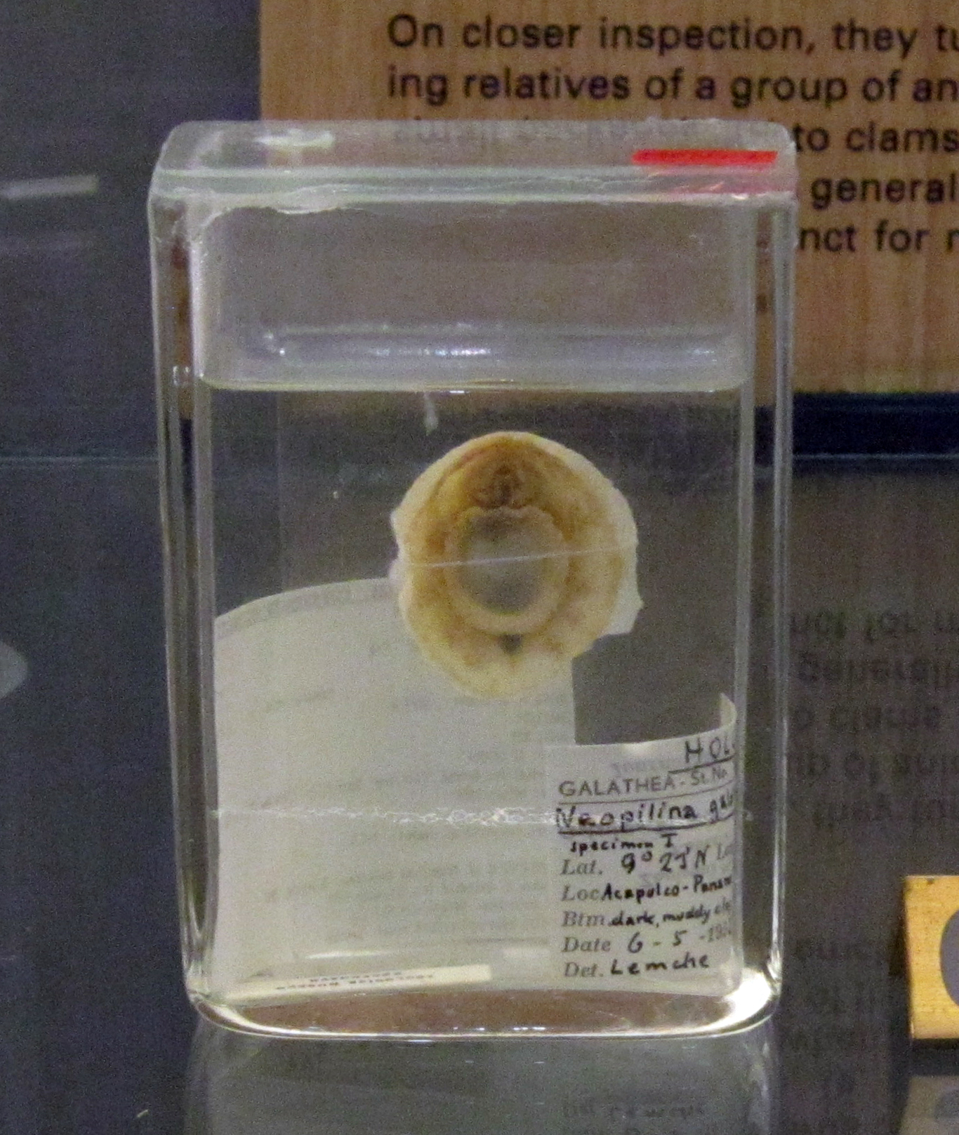 The holotype of Neopilina galatheae at the Zoological Museum, Copenhagen.